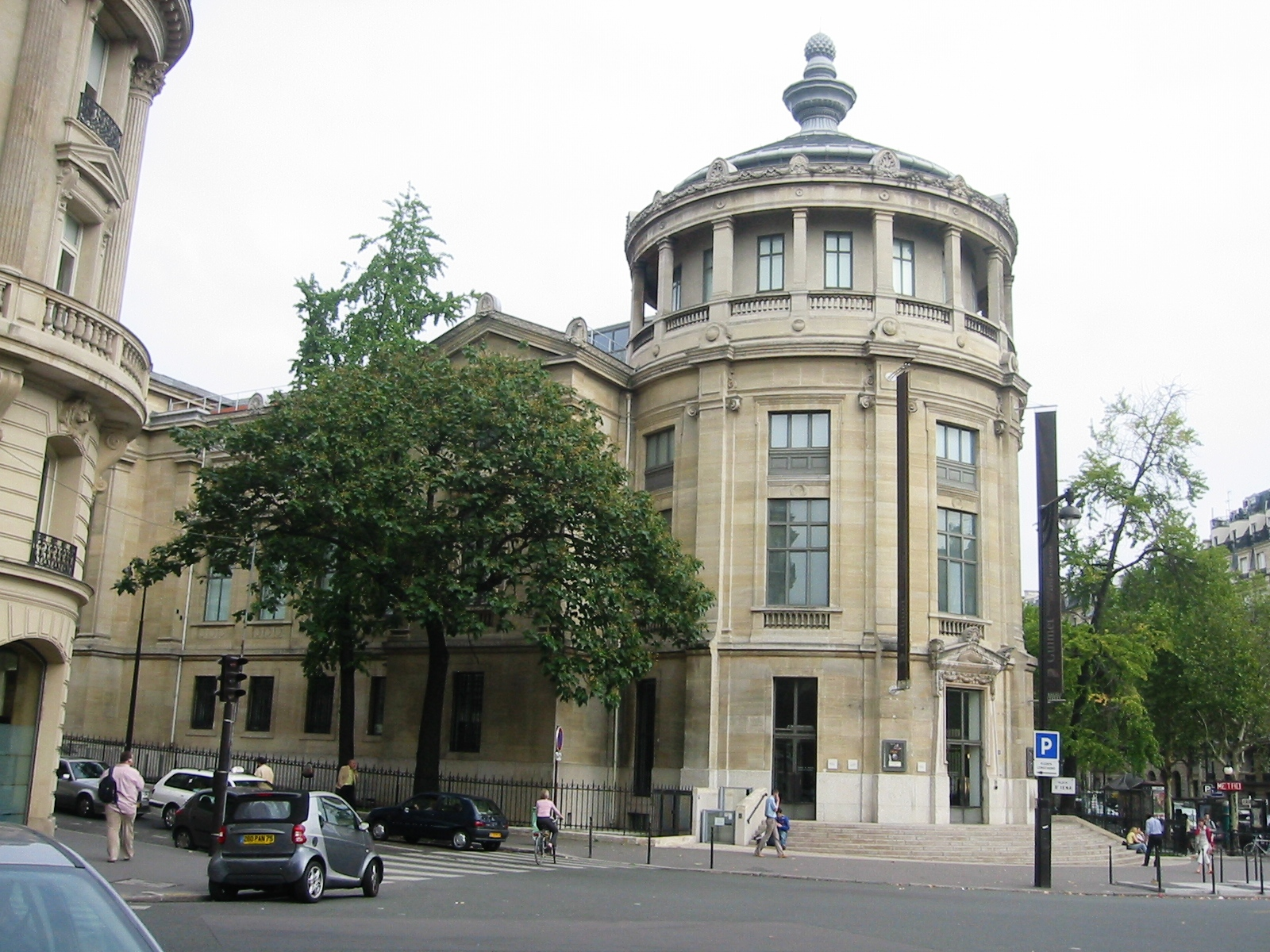 Guimet Museum. Personal photograph, 2005.